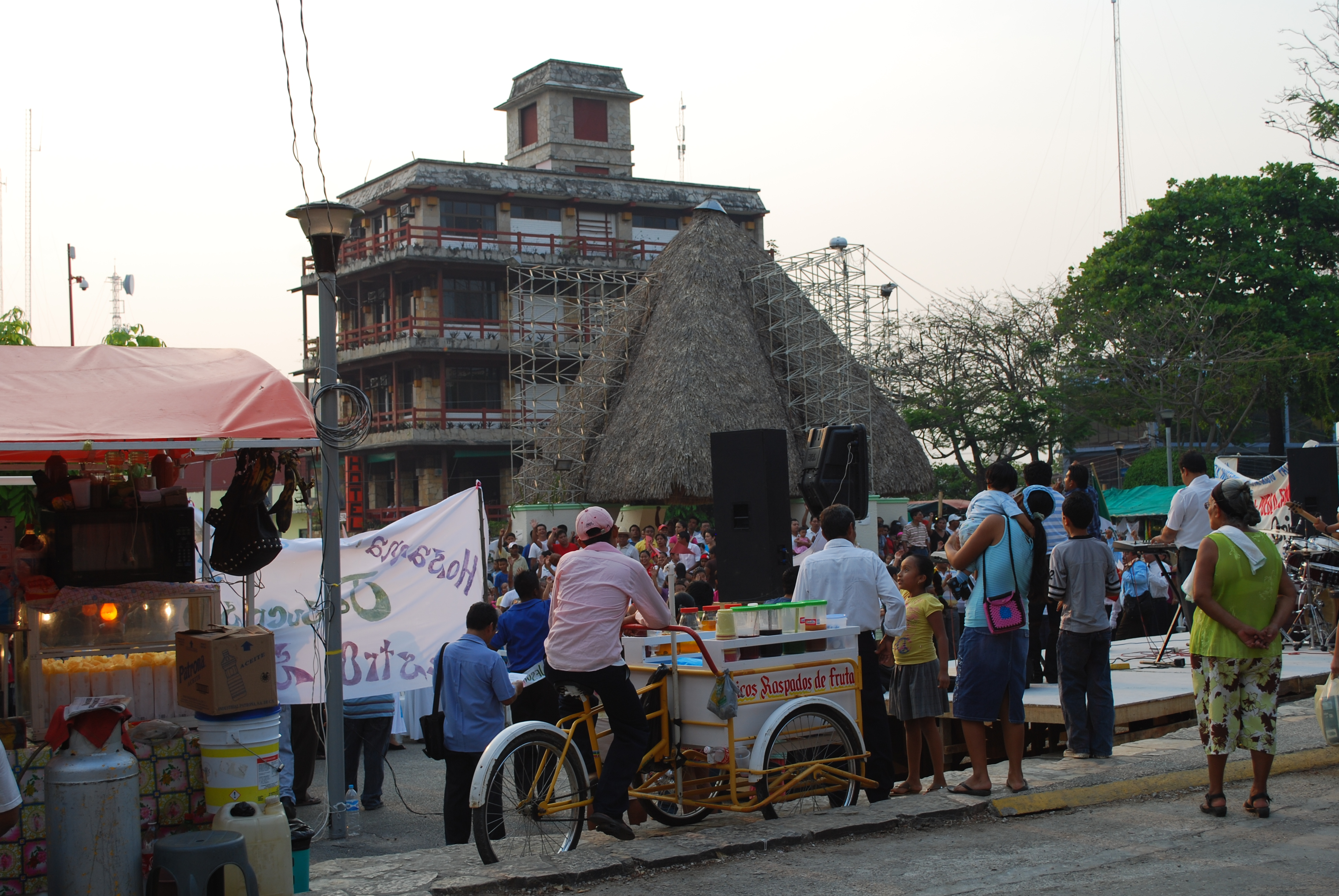 Scene at the main plaza of the town of Palenque, Chiapas, Mexico